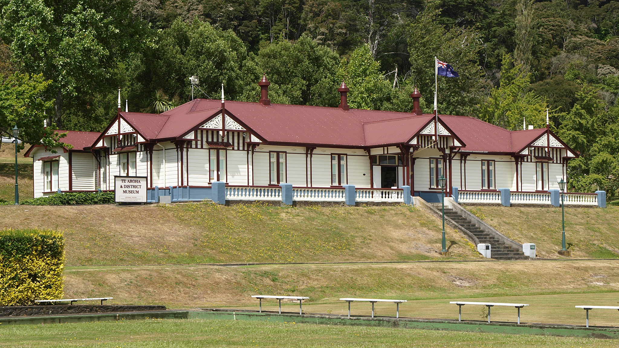 Cadman Bath House (former), Te Aroha, Waikato Region, New Zealand Whitaker Street, Te Aroha Hot Springs Domain, Te Aroha NZ Historic Places Trust, list number 761